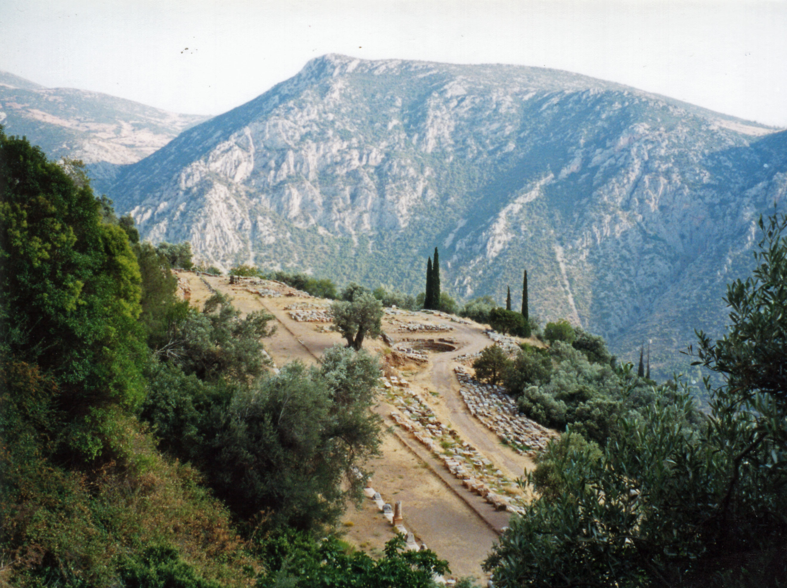 View of the Gymnasium, Delphi, Greece.